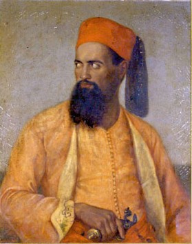 O mouro (The moorish man) by Marciano Henriques da Silva (1831-1873), an Azorean painter.